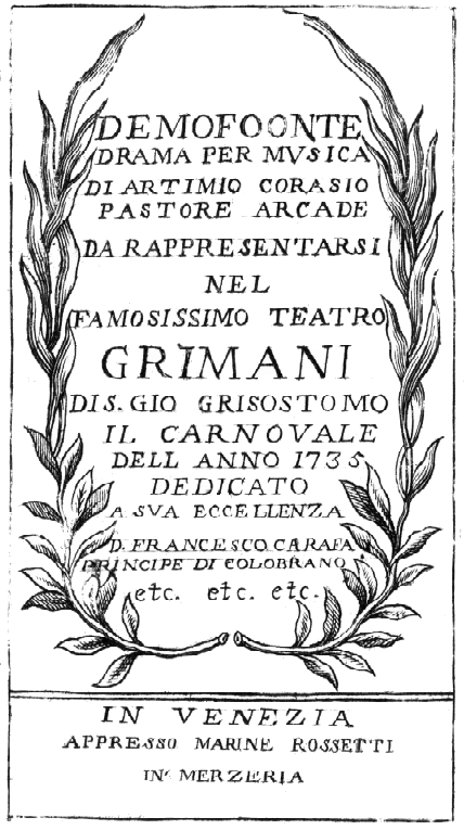 Gaetano Maria Schiassi - Demofoonte - titlepage of the libretto - Venice 1735